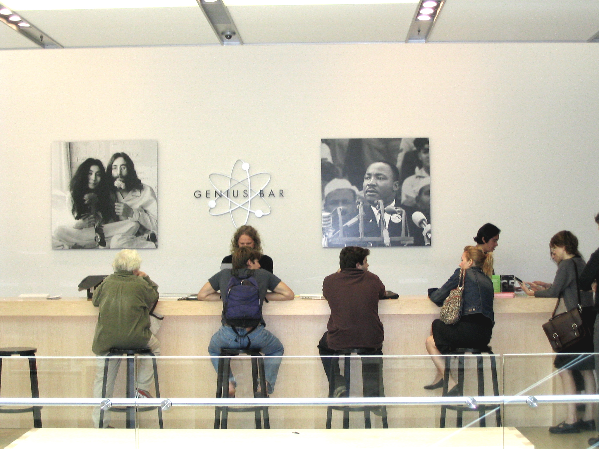 Genius Bar at the Apple Store, SoHo, Prince Street, SoHo, Manhattan, New York City